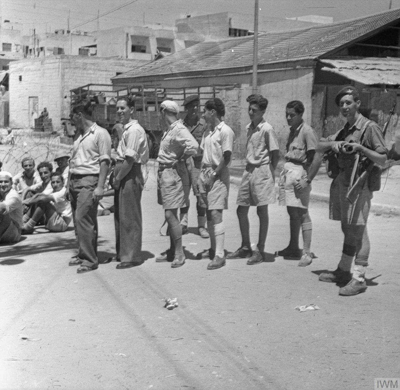 A member of the Parachute Regiment stands guard over a group of Jewish civilians who wait in line to be interrogated by British army officers and members of the Palestine Police during a sweep in Tel Aviv for members of Jewish terrorist organisations such as the Irgun